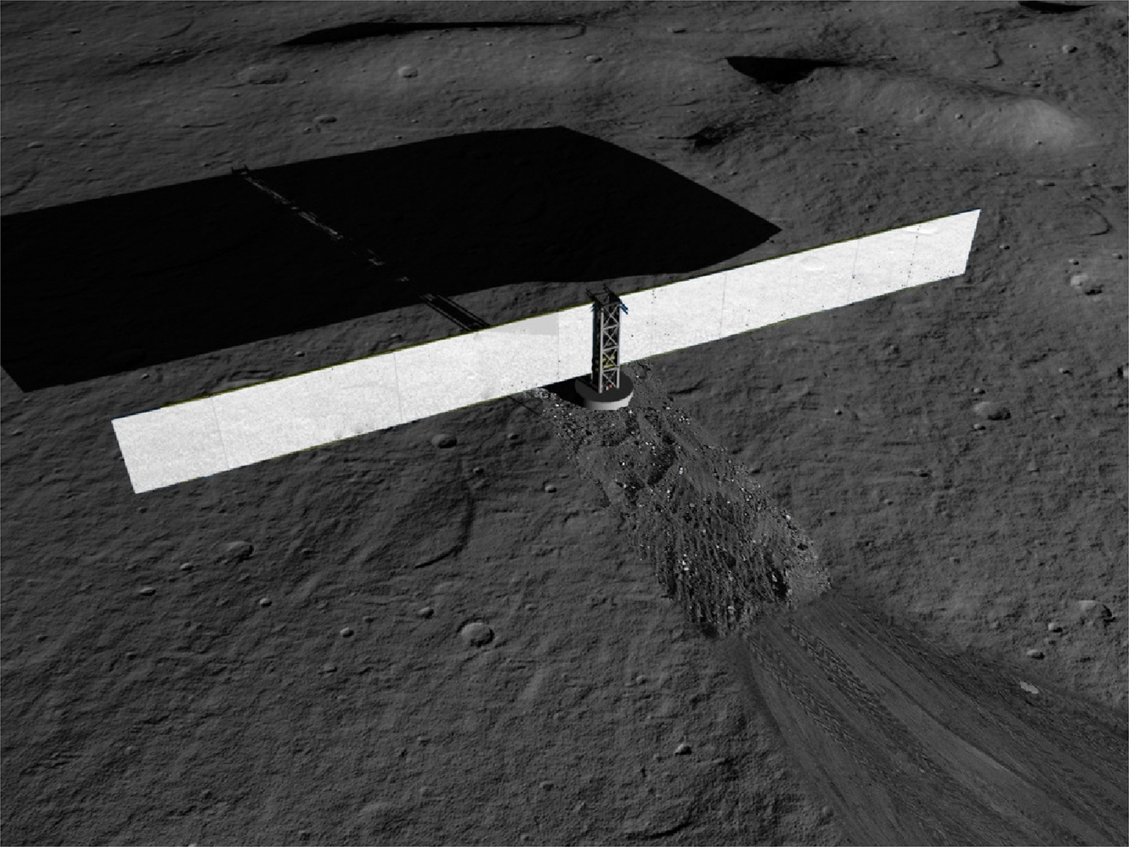 An artist’s concept of a fission surface power system on the surface of the moon. The nuclear reactor has been buried below the lunar surface to make use of lunar soil as additional radiation shielding. The engines that convert heat energy to electricity are in the tower above the reactor, and radiators extend out from the tower to radiate into space any leftover heat energy that has not been converted to electricity. The power system would transmit a steady 40 kW of electric power, enough for about eight houses on Earth, to the lunar outpost.